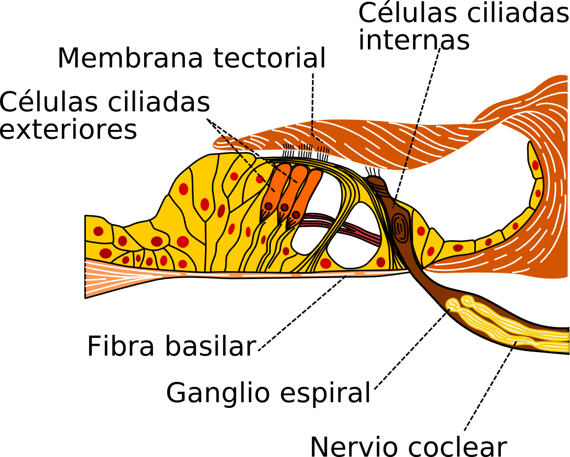 Organ of Corti